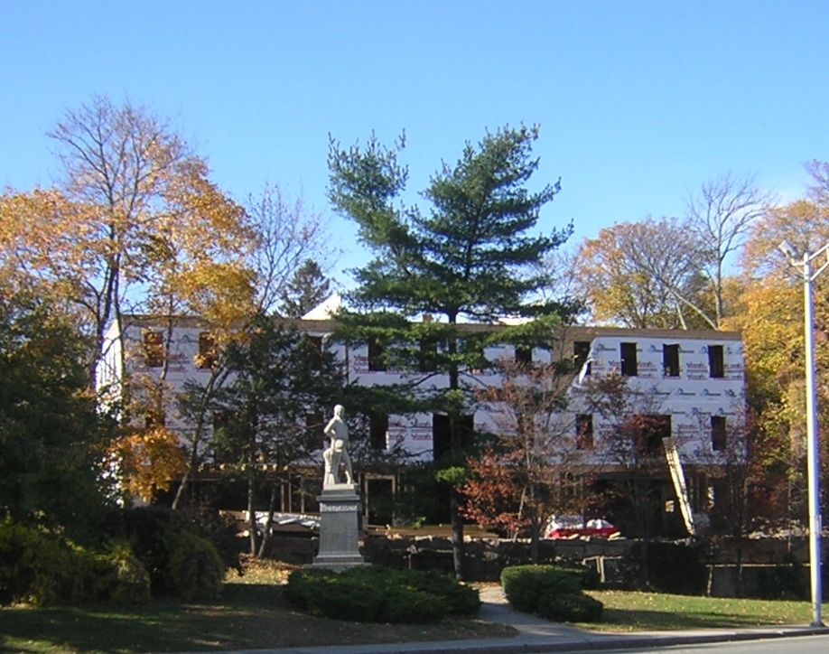 The Massachusetts Historical Commission description says of the Charles Marsh House, Quincy, MA says, "Spacious lot adjoining Robert Burns Park but close to commercial Granite Street". The statue of Burns is in the center of the photo. The Robert Burns statue was designed by Gerald T. Horrigan and sculpted by his father John Horrigan.